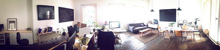 The studio in Belfast